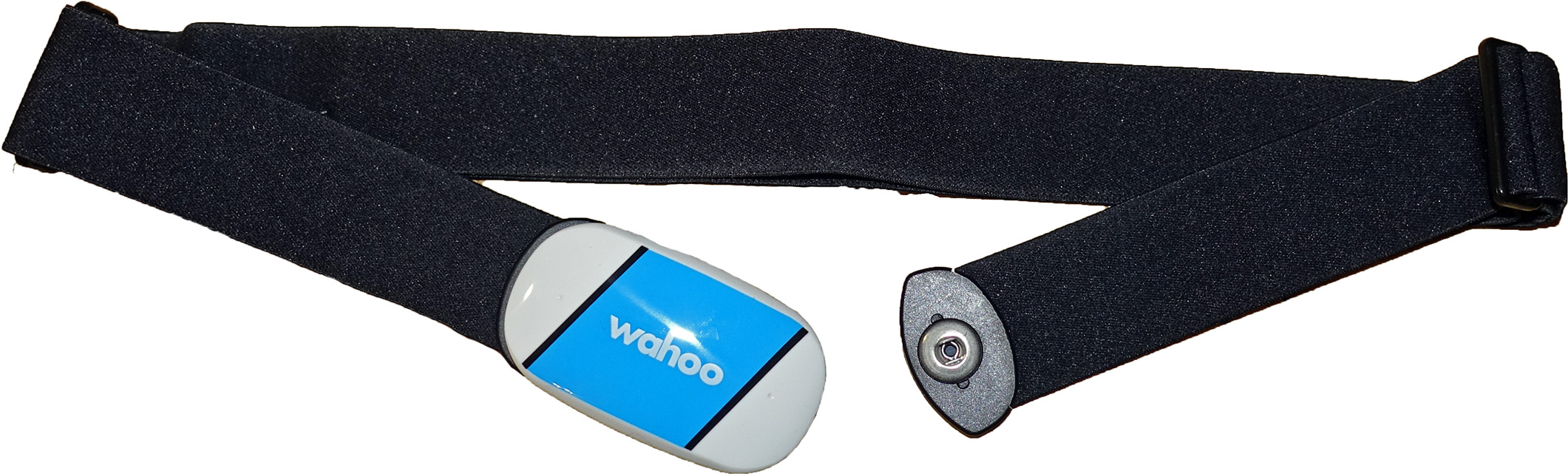 Wahoo Tickr heart rate monitor with a chest belt